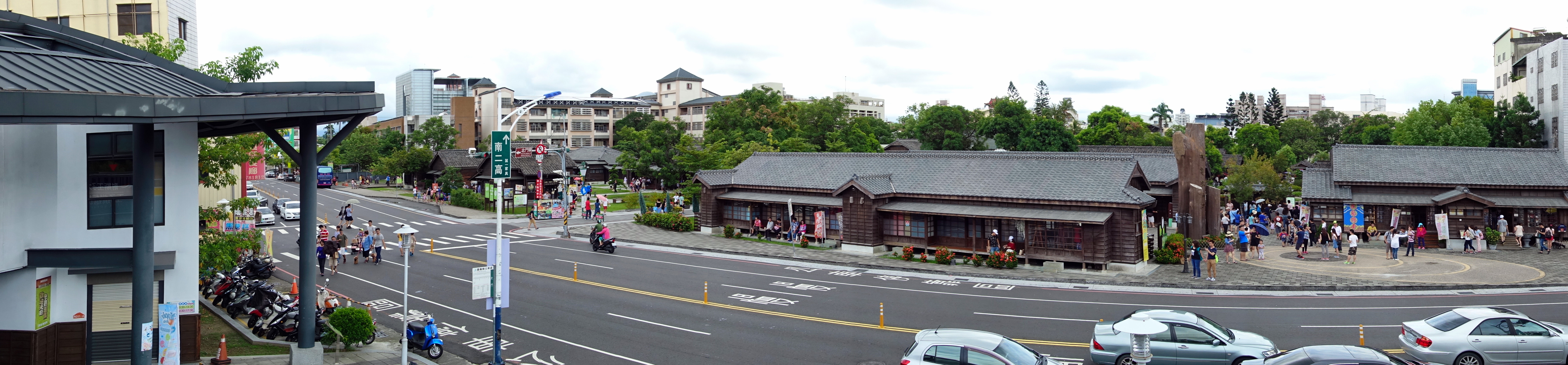 A panoramic view of the Hinoki Village, Chiayi City, Taiwan.